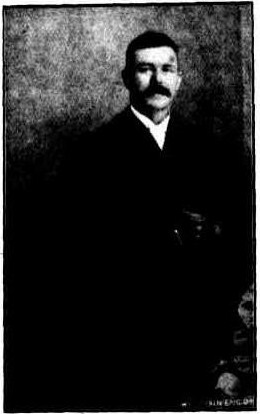 Mr F W B Clinch, a passenger aboard the SS Koombana at the time of her loss on 20 March 1912.